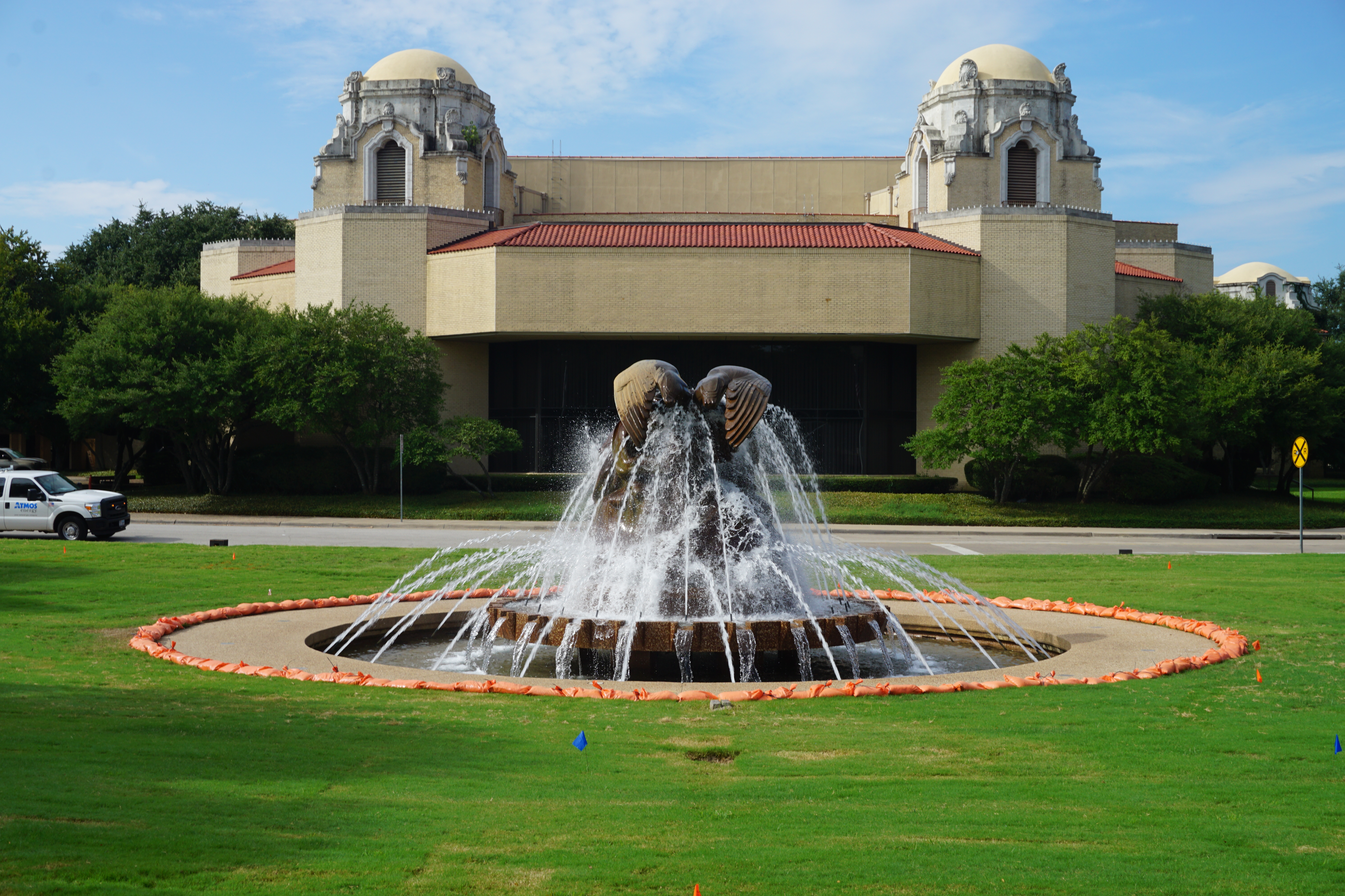 Smith Fountain and the Music Hall at Fair Park in Dallas, Texas (United States).